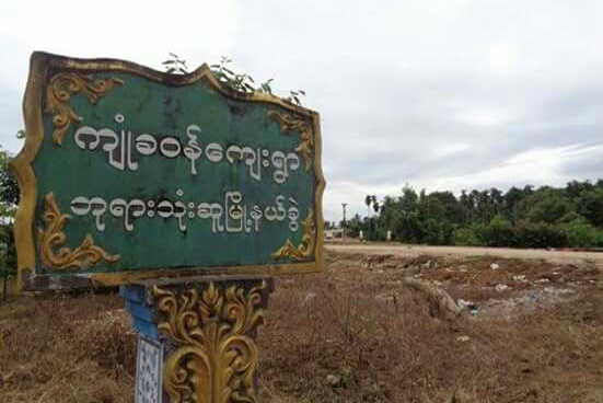 Signboard welcome of Kyongawon